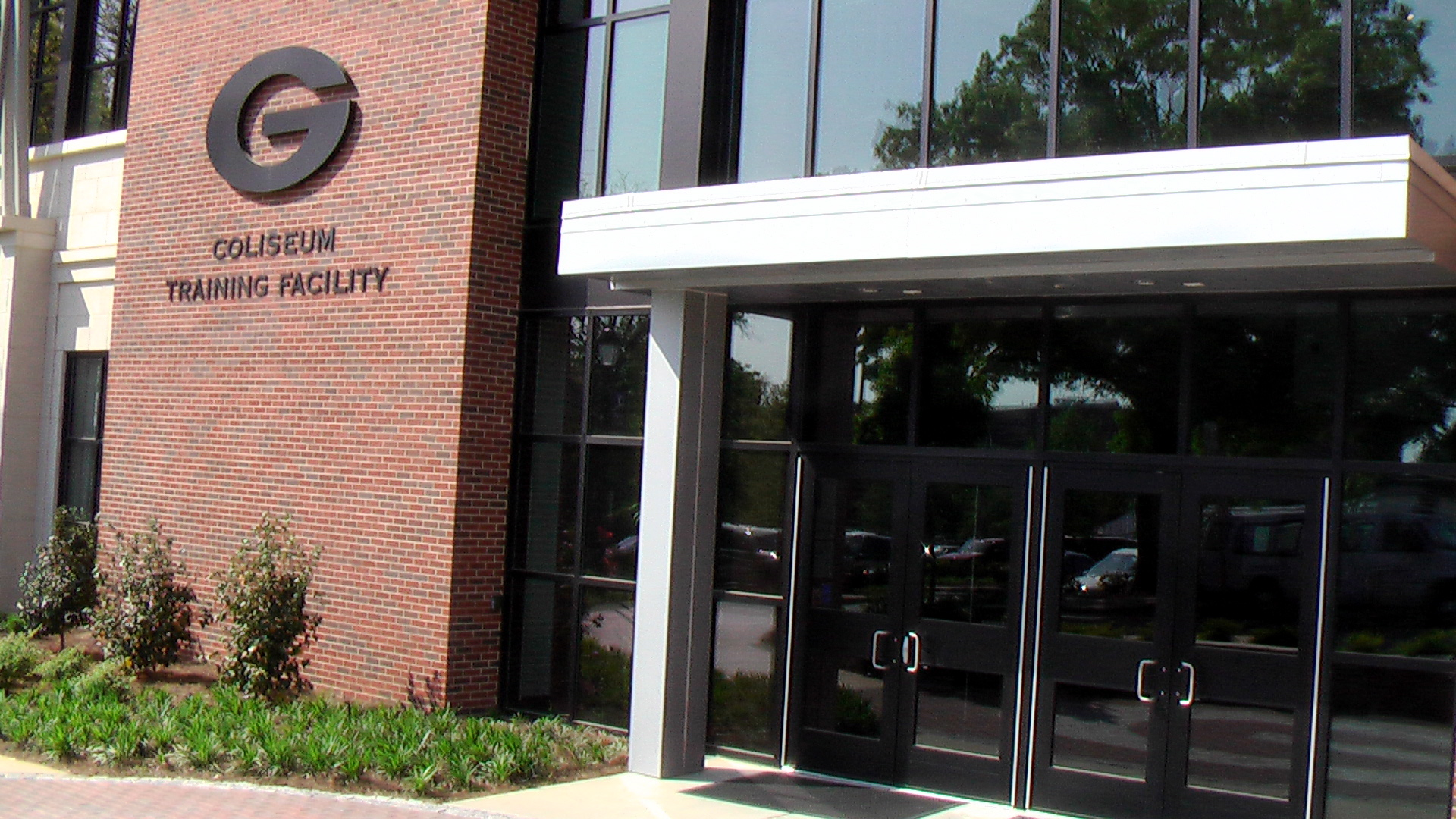 Coliseum Training Facility for the Georgia Women's Gymnastics